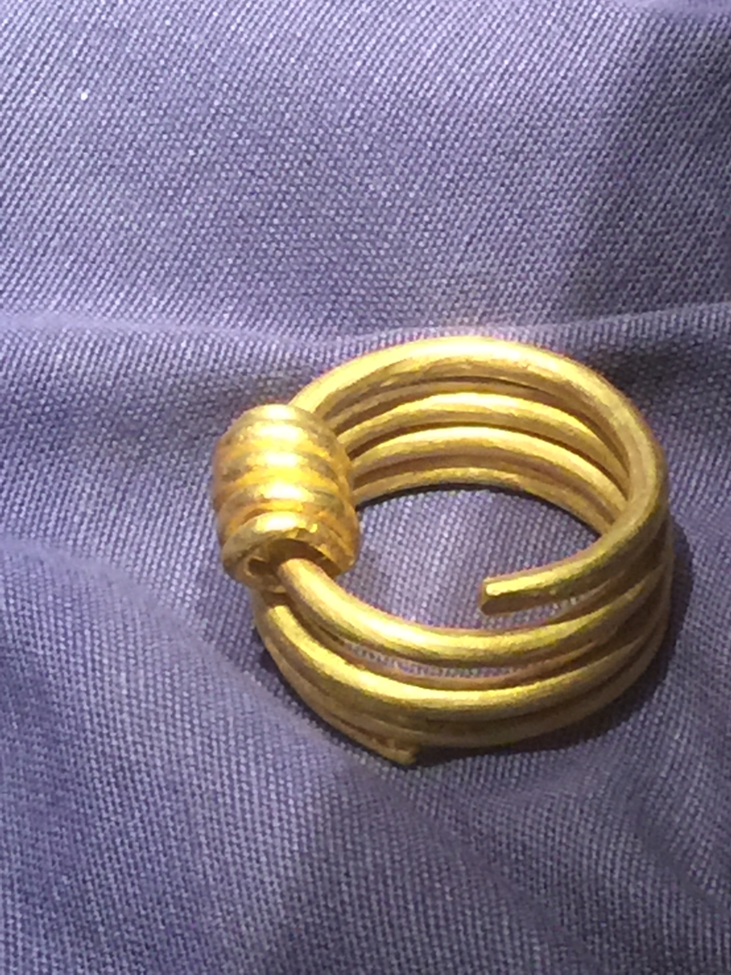 Gold found in Skaland in Vefsn, Nordland, Norway in the year 1880.